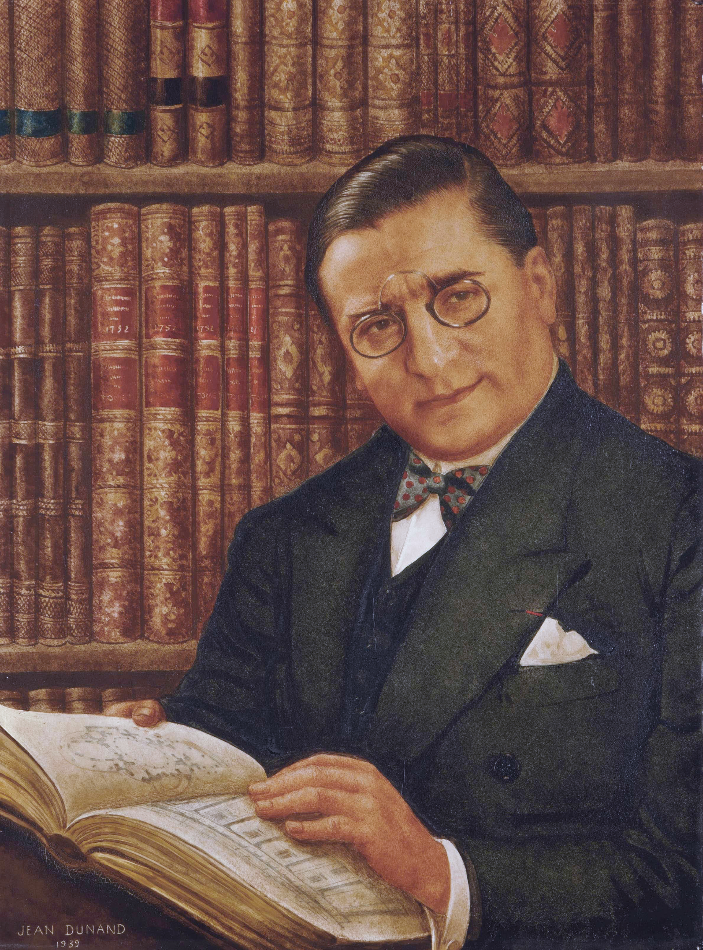 Armand Albert Rateau in his library mixed technique 67 x 50 cm signed l.l.: Jean Dunand / 1939